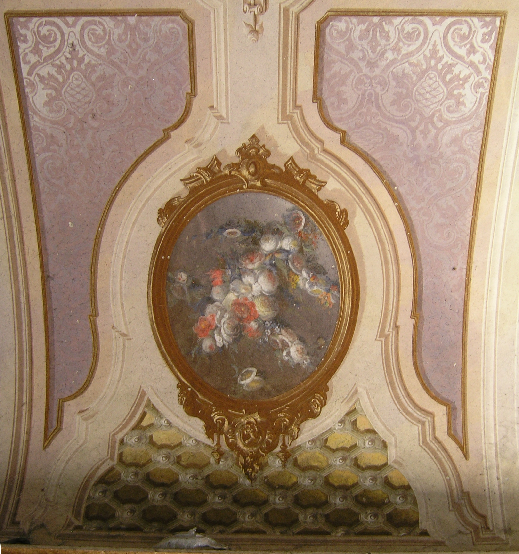 Frescoes in the Benso di Cavour family palace at Leri Cavour (Italy)